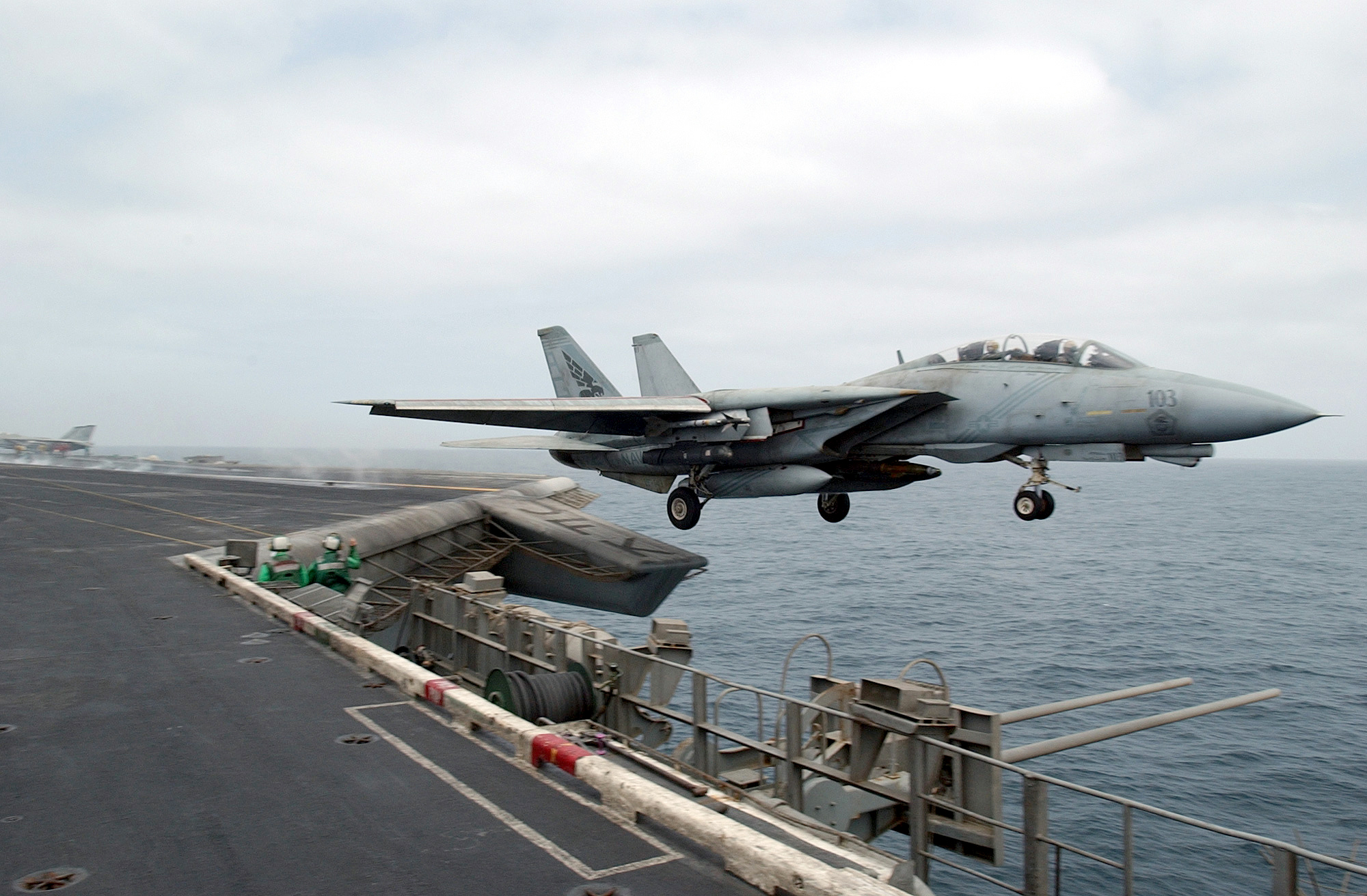 Aboard USS John F. Kennedy (CV-67) -- An F-14B “Tomcat” from the “Pukin’ Dogs” of Fighter Squadron One Four Three (VF-143) is launched from one of four steam-powered catapults aboard ship. Kennedy and her embarked Carrier Air Wing Seven (CVW-7) are on a regularly scheduled deployment conducting combat missions in support of Operation Enduring Freedom. U.S. Navy photo by Photographer’s Mate 1st Class Jim Hampshire. (RELEASED)